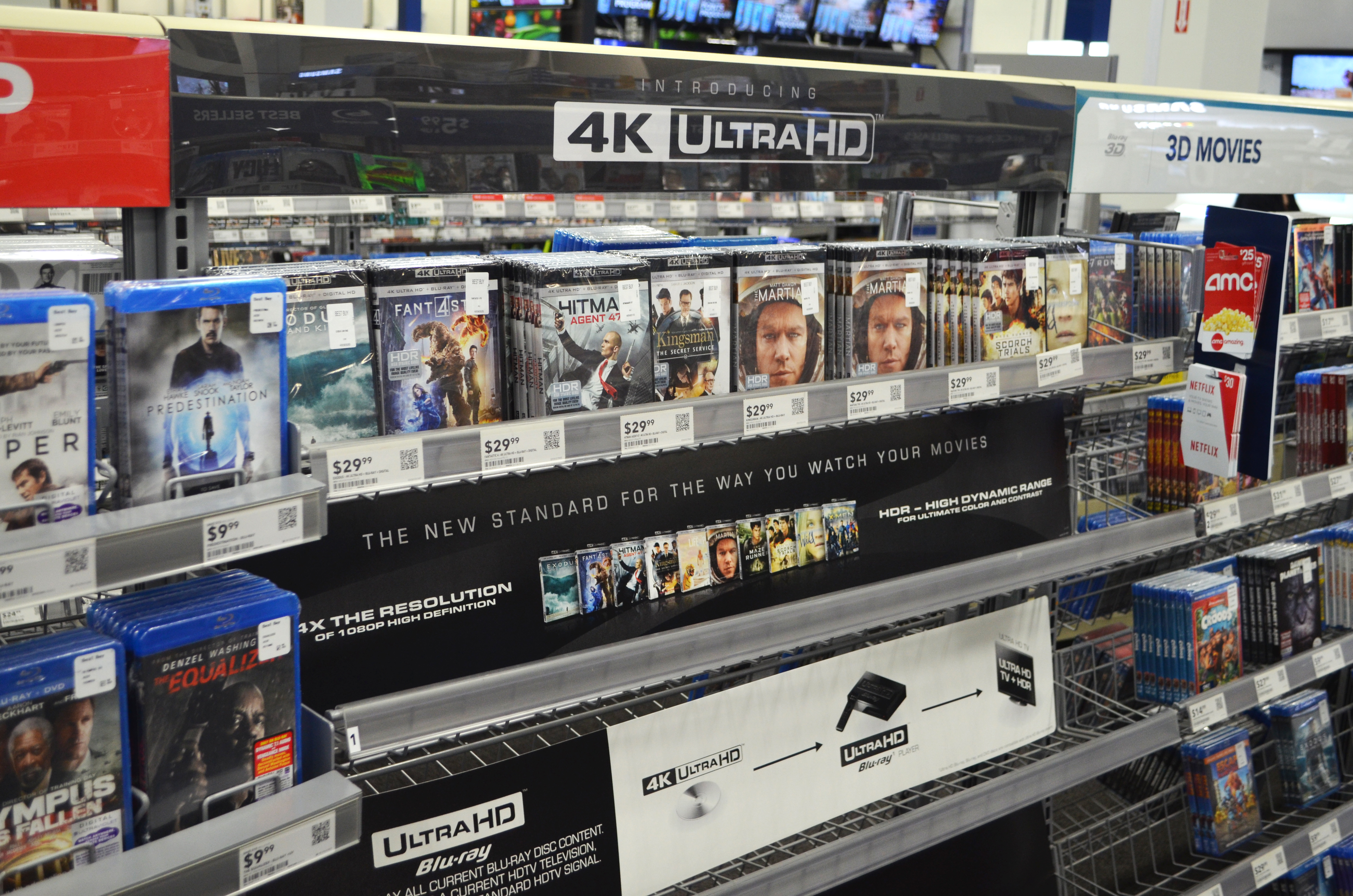 Seven movies on Blu Ray in mid February 2016. Samsung $400 4K Blu Ray player also limited released and apparently sold out. Movies were bouncing between $27 or $28 and $30. Note: This was taken inside a big box store (Best Buy) and may not be a suitable free license. I'm not sure, but know that there are very few Walmart photos.